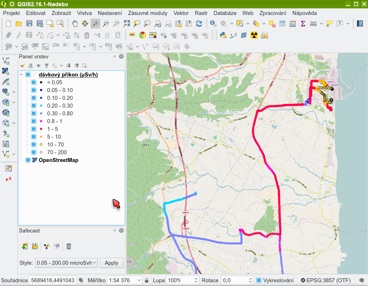 Screenshot of QGIS software showing OpenStreetMap layer and point data from Safecast measurements in Fukushima Daiichi area.